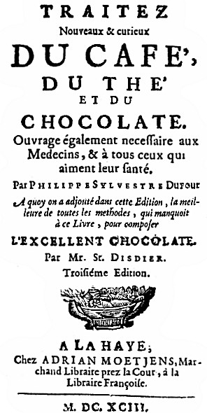 title page for Traitez Nouveaux & Curieux du Café, du Thé et du Chocolate, Philippe Sylvestre Dufour (1622–87) see also: frontispiece illustration for this text, File:Philippe Sylvestre Dufour Chocolat 17th century.jpg